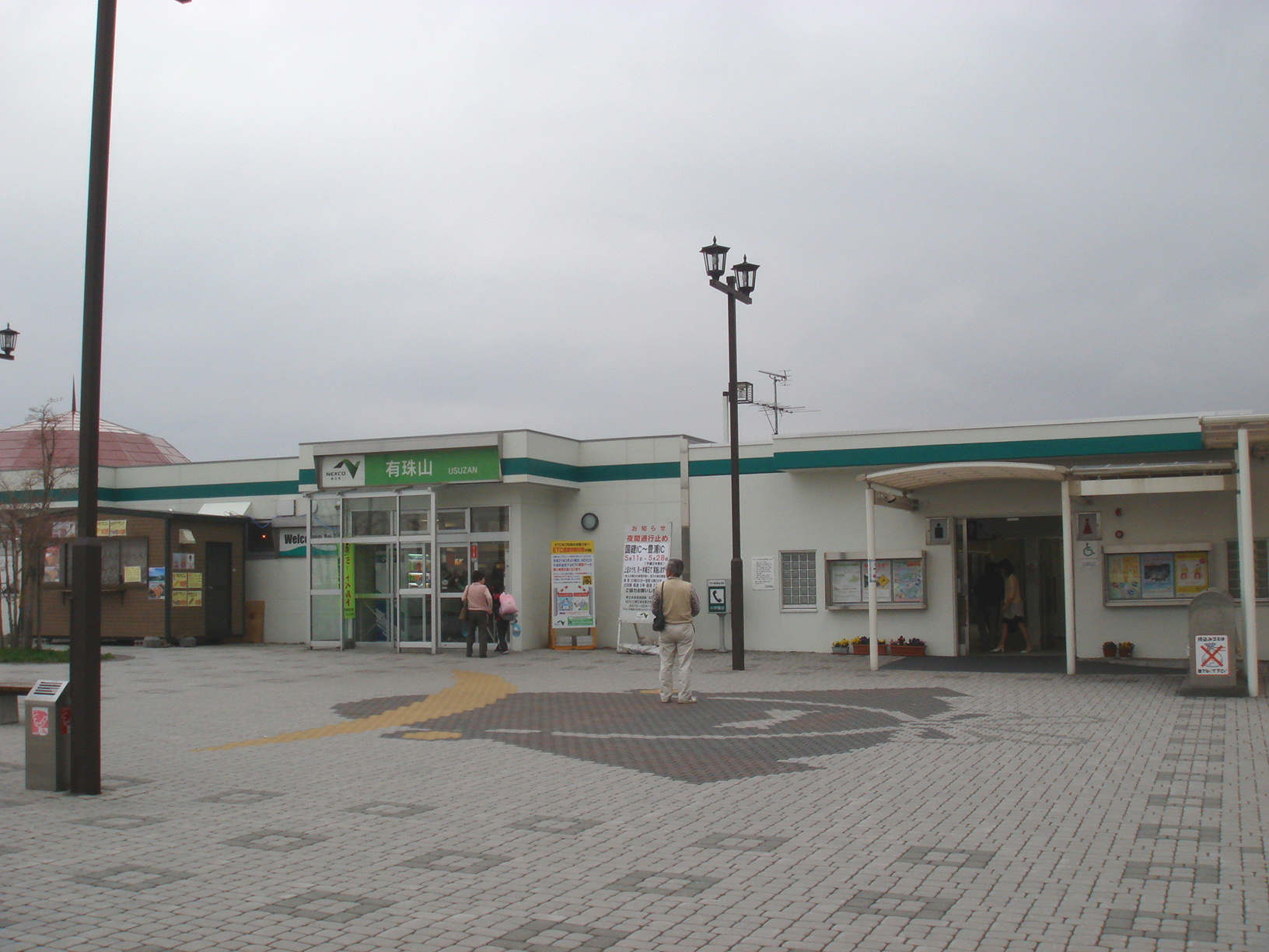 Usuzan Service Area on the Hokkaidō Expressway northbound line